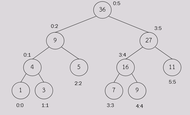 เป็นตัวอย่างของ Segment Tree (หาผลบวกของช่วงที่กำหนด)